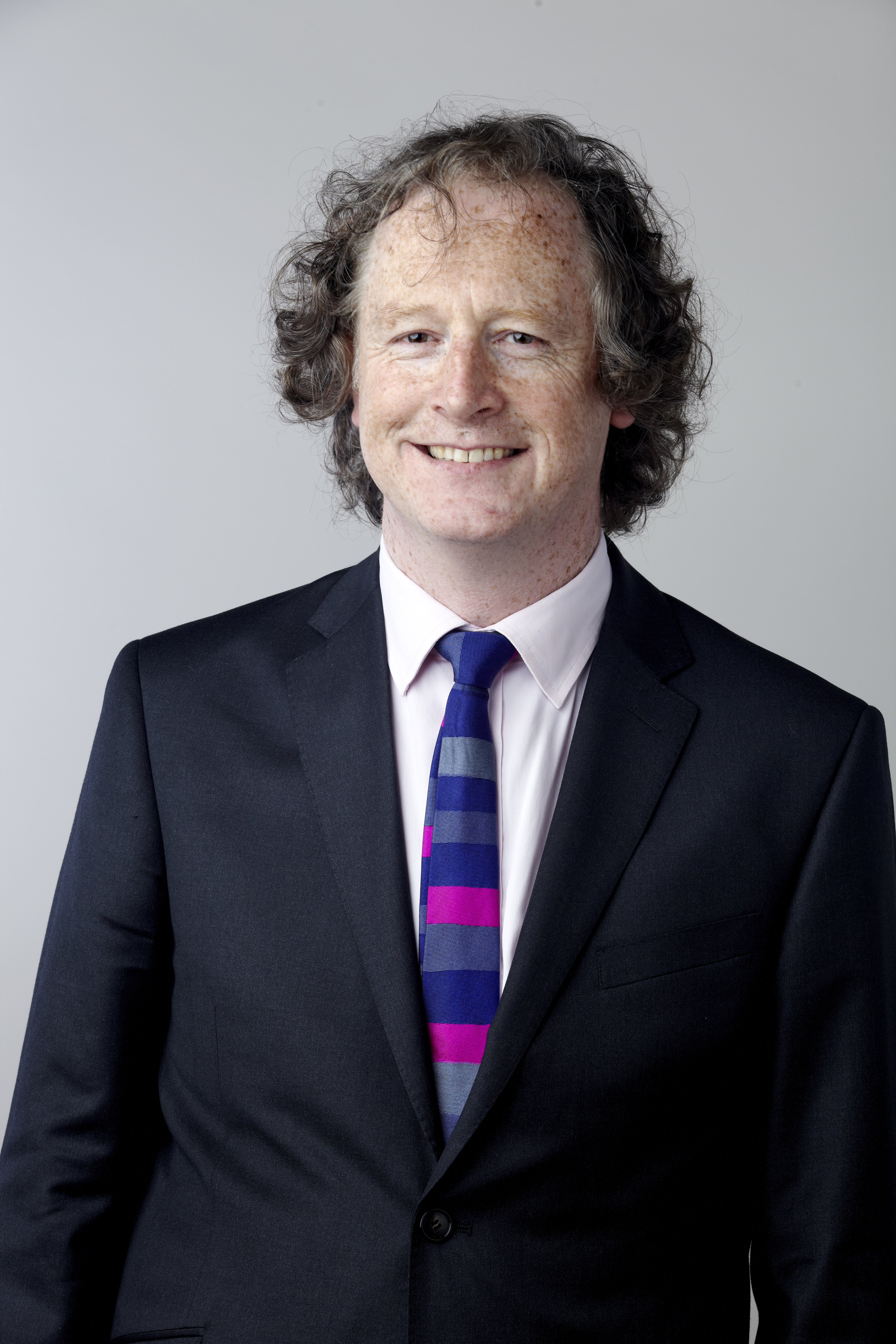 Professor Liam Dolan FRS, Royal Society Fellow elected 2014 Attribution: The Royal Society